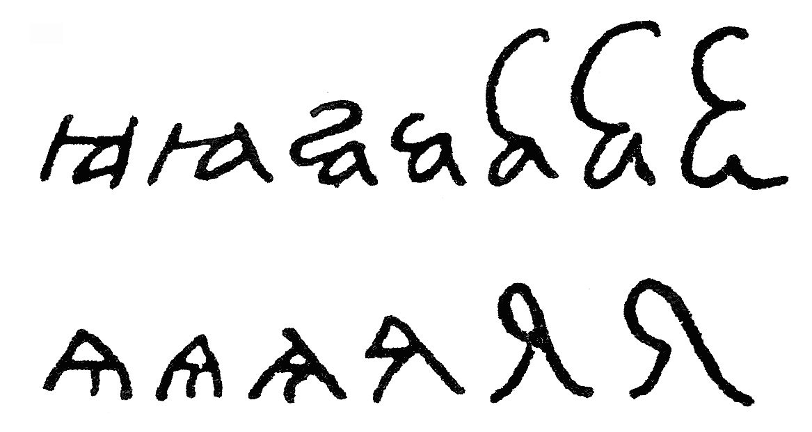 Forms of the Cyrillic letters YA (top line) and SMALL YUS (bottom line) from Russian manuscripts of the 15th to 17th centuries